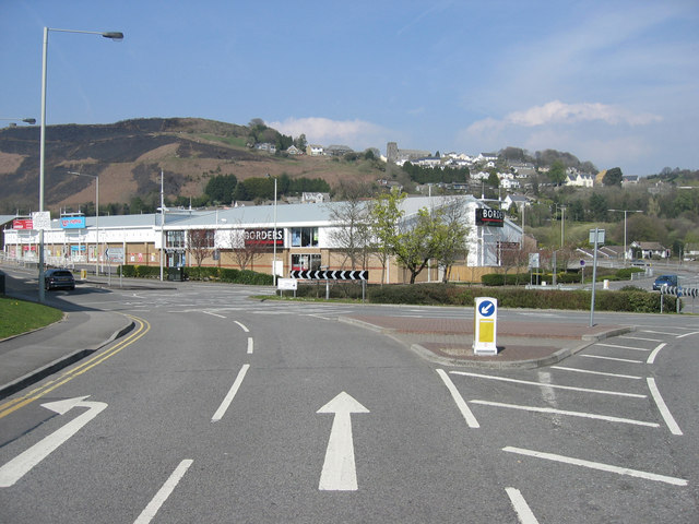 Talbot Green Retail Park